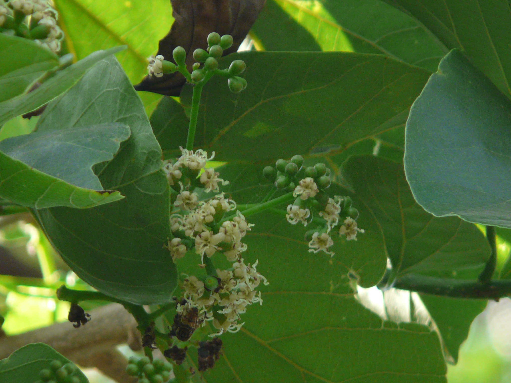 Boraginaceae (forget-me-not family) » Cordia dichotoma KOR-dee-uh -- named for Valerius Cordus, 16th century German botanist dy-KAW-toh-muh -- meaning, divided or forked in pairs commonly known as: bird lime tree, clammy cherry, fragrant manjack, Indian cherry, Sebesten plum • Assamese: goborsuta • Bengali: bahubara • Gujarati: વદો ગુંદો vado gundo • Hindi: बहूआर bahuar, गुन्दा gunda, लसोड़ा lasora • Kannada: ಚಳ್ಳೆ ಹಣ್ಣು challe hannu • Malayalam: നറുവേലി naruveeli, വിരശം virasam, വിരി viri • Marathi: भोकर bhokar, गोंदणी gondani, गोंधण gondhan • Sanskrit: बहुक bahuka, बहुवारः bahuvaraha, उद्दलक uddalaka • Tamil: நறுவல்லி naru-valli, விரிசு viricu • Telugu: నెక్కర nekkara, శ్లేష్మాతకము slesmatakamu, విరిగి virigi • Urdu: سپستان sipistan Native to: China, eastern Asia, Indian subcontinent, Indo-China, Malesia, northern Australia, south-western Pacific References: Flowers of India • NPGS / GRIN • PIER • World Agroforestry Centre